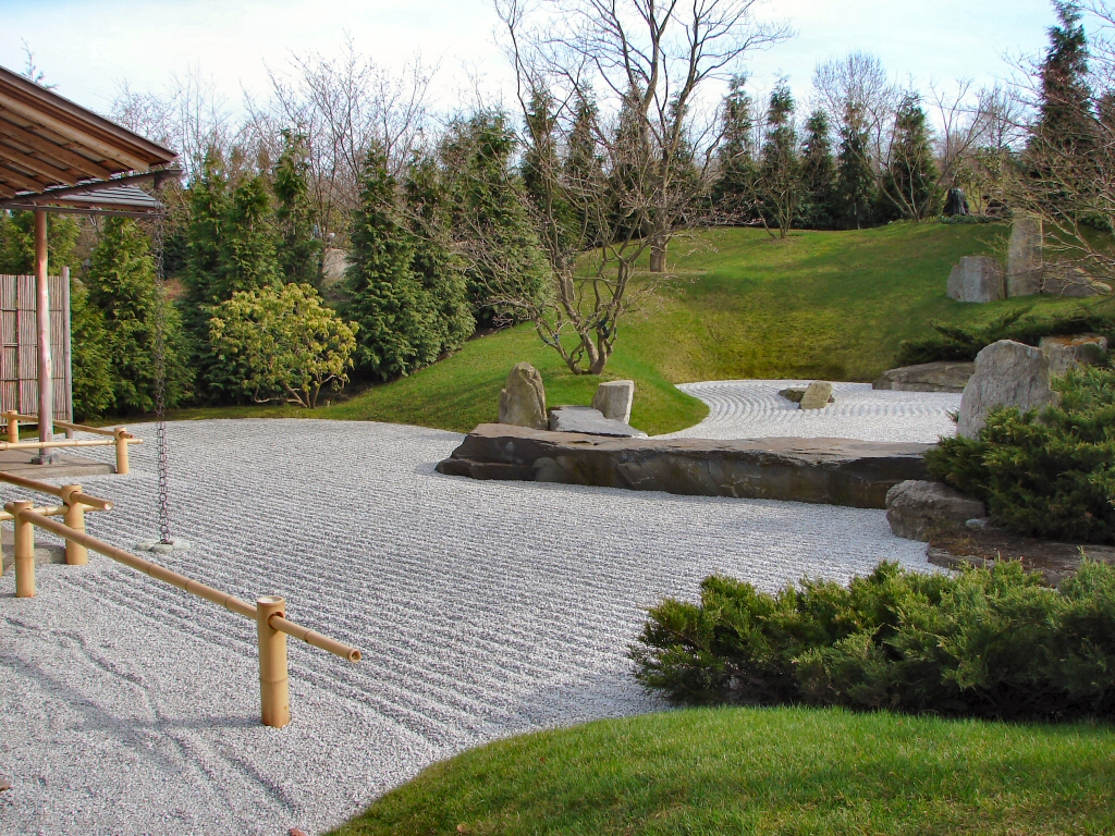 japanese garden in Erholungspark Marzahn